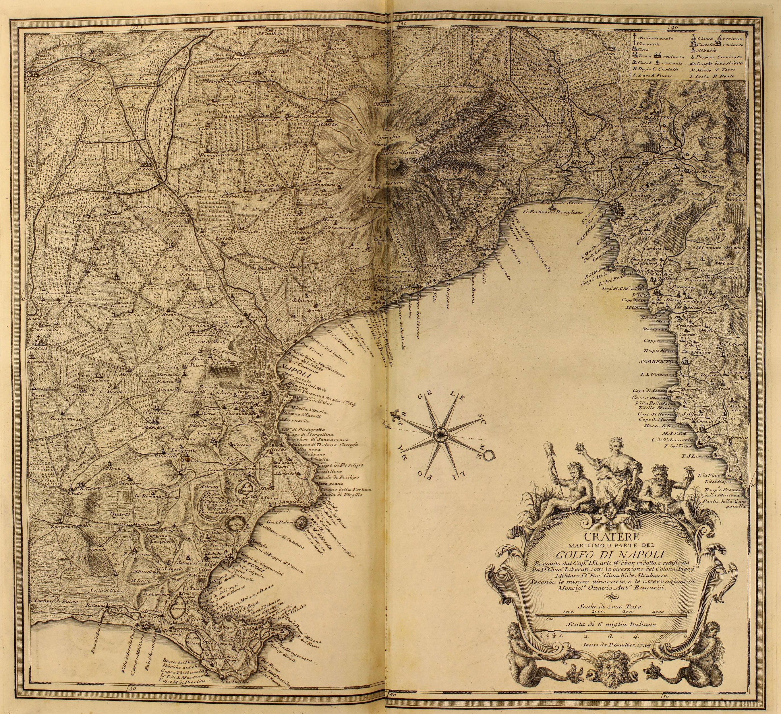 Gulf of Napoli, Italy 1754 by P. Gaultier